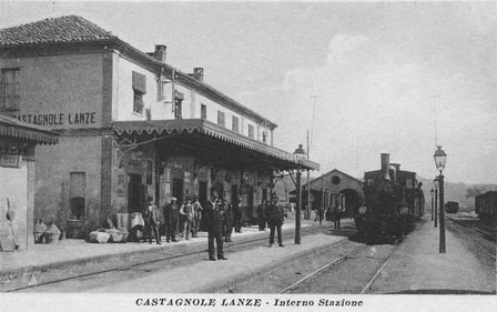 Castagnole delle Lanze railway station